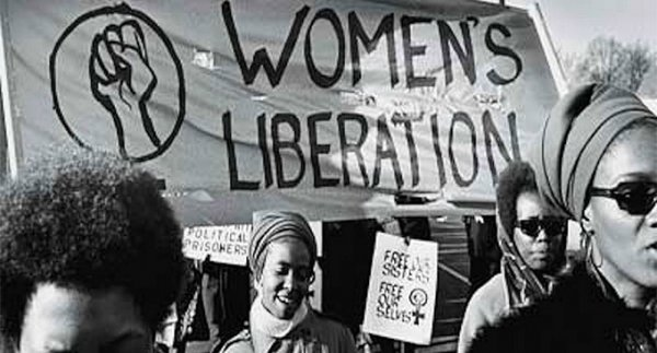 Algunas mujeres negras se sentían marginalizadas por el Movimiento de Liberación de la Mujer.